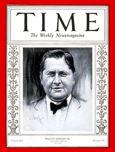 William Wrigley, Jr. оn the cover of Time 14 October 1929